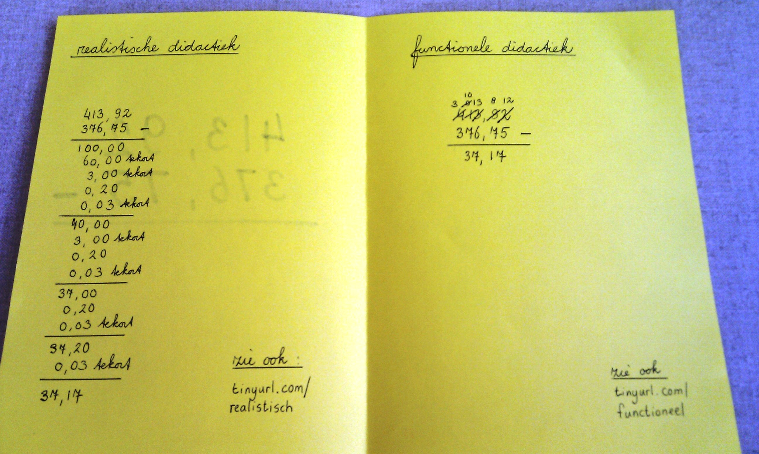 Two didactic methods of teaching maths. The writing on this yellow paper is also done by me.